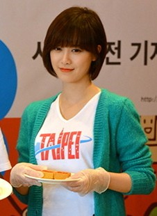 Ku Hye-sun at the Fun Taipei Campaign press conference, on May 29, 2013